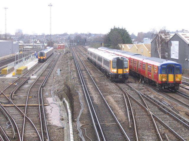 Wimbledon traincare depot. The traincare depot (left) adjacent to the main line out of Waterloo, just north of Wimbledon.